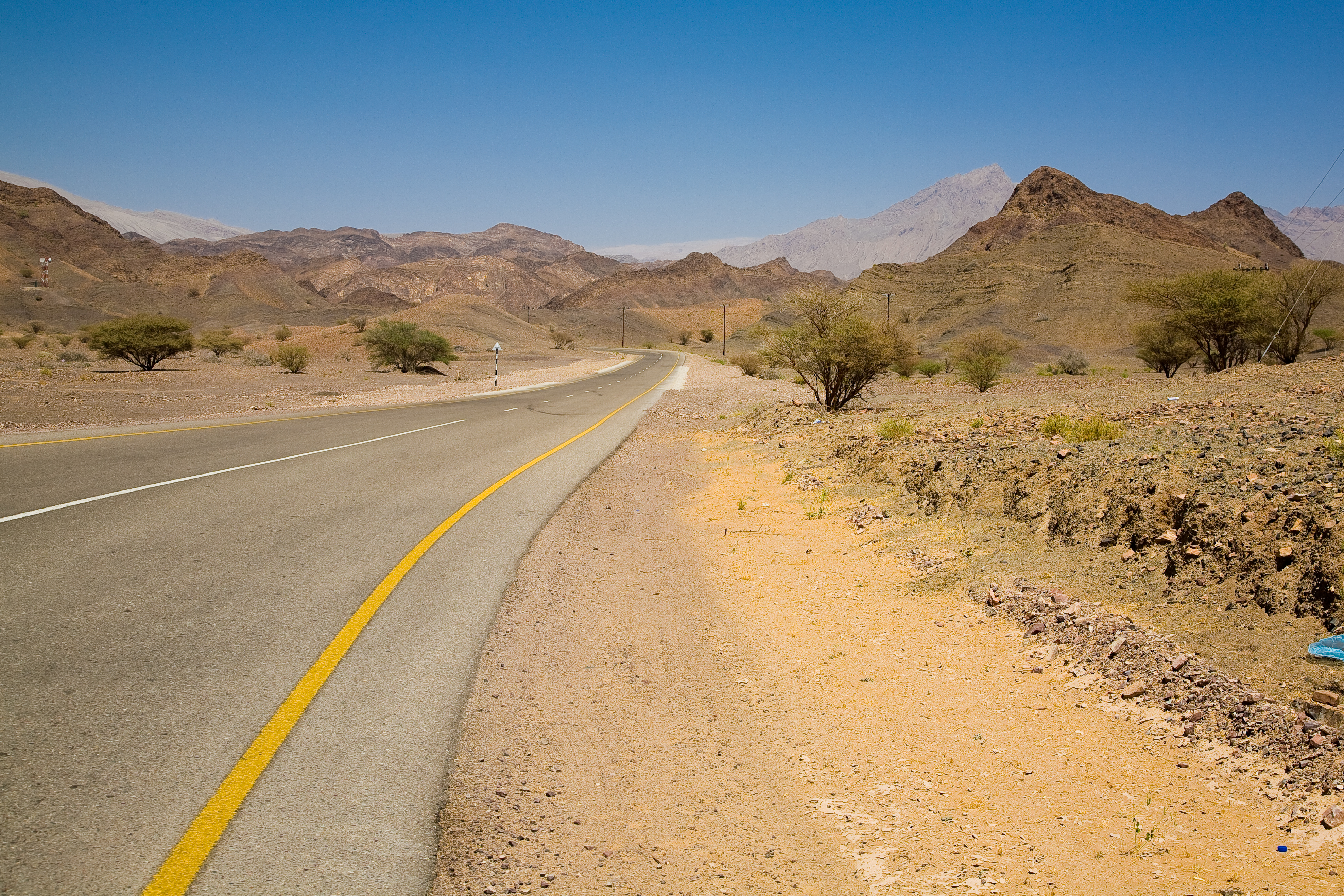 Road on the east coast of Oman